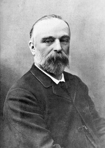 L0010301 Portrait of Paul Camille H. Brouardel Credit: Wellcome Library, London. Wellcome Images Portrait of Paul Camille Hippolyte Brouardel, a reprint by L.T.J. Landouzy, Paris, 1906 Published: - Copyrighted work available under Creative Commons Attribution only licence CC BY 4.0